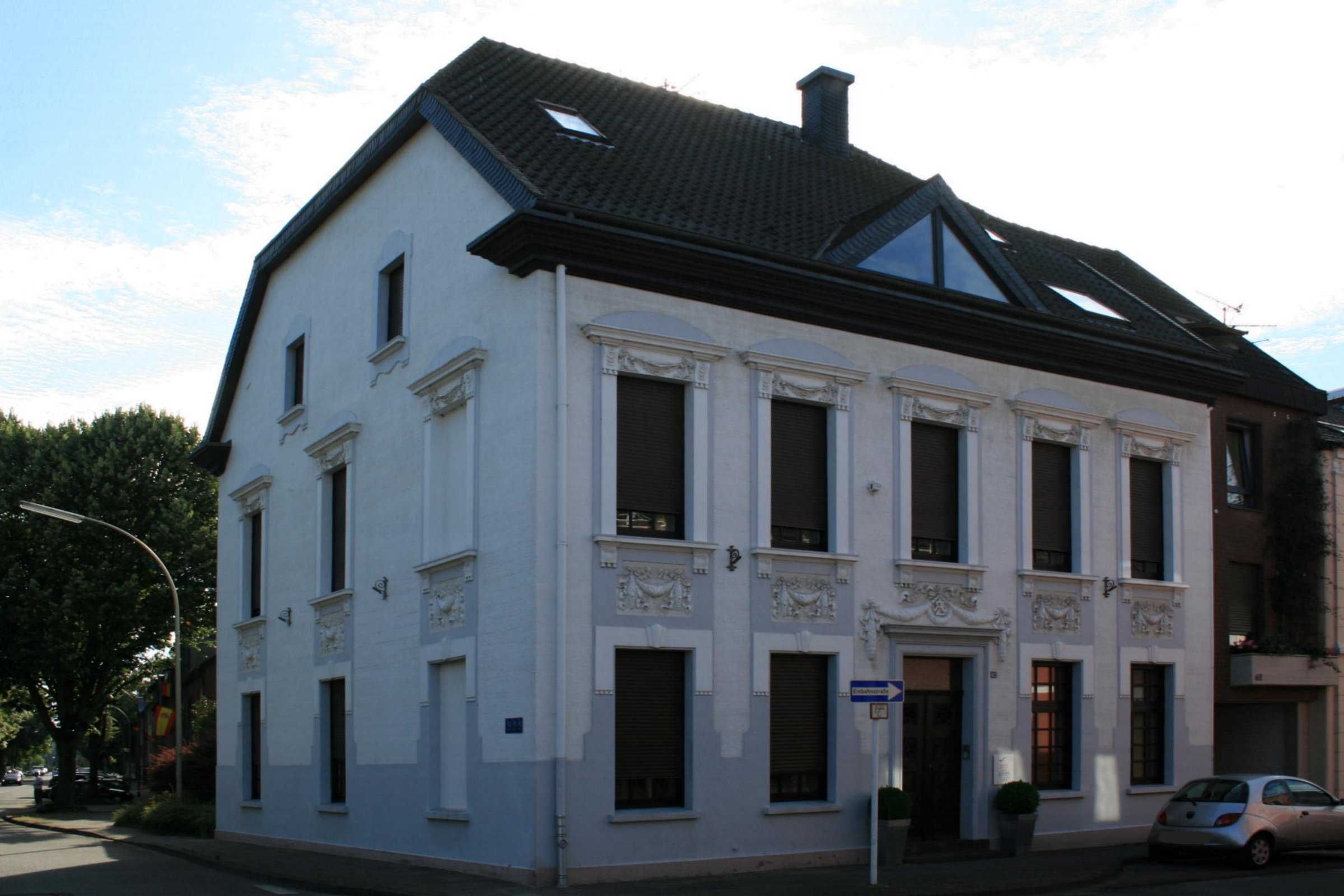 Cultural heritage monument No. A 009 in Mönchengladbach